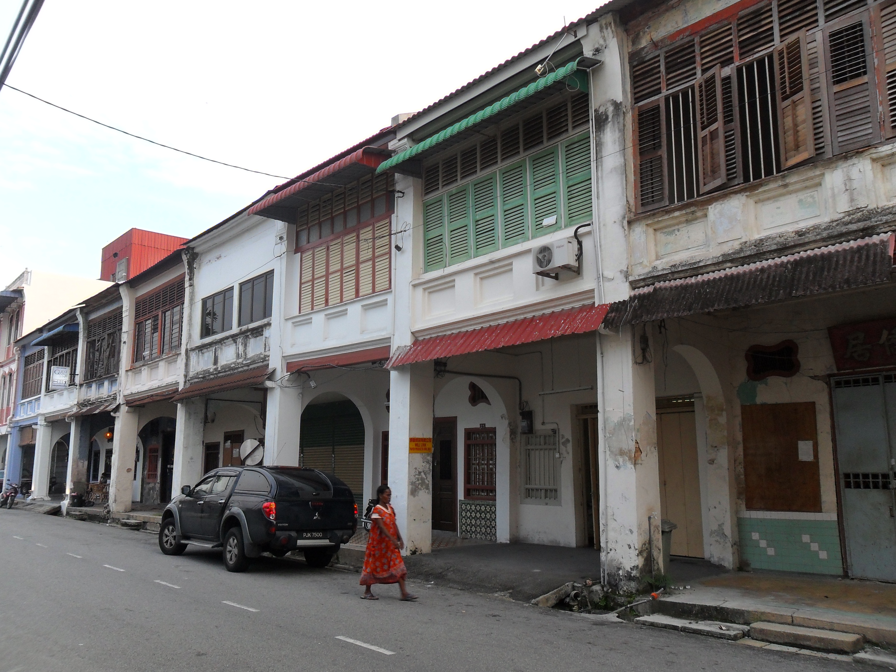 A street in the old town of George Town, Penang.